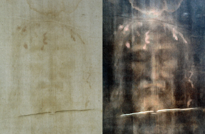 The processed image at the right is the product of the application of digital filters. Digital filters are mathematical functions that do not add any information to the image, but transform it in such a way that information already present in it becomes more visible or easier to appreciate by the naked eye. The processed image was produced by inverting the brightness of the pixels in the positive image but without inverting their hue, and then by increasing both the brightness contrast and the hue saturation. Finally noise and so-called “salt and pepper” filters automatically removed the noisy information from the original image which hinders the appreciation of the actual face. To my knowledge the resulting image is the best available and indeed the only one that reveals the color information hidden in the original. Source of the positive image at the left